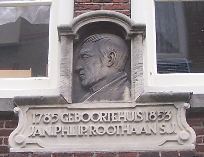 Laurierstraat 62